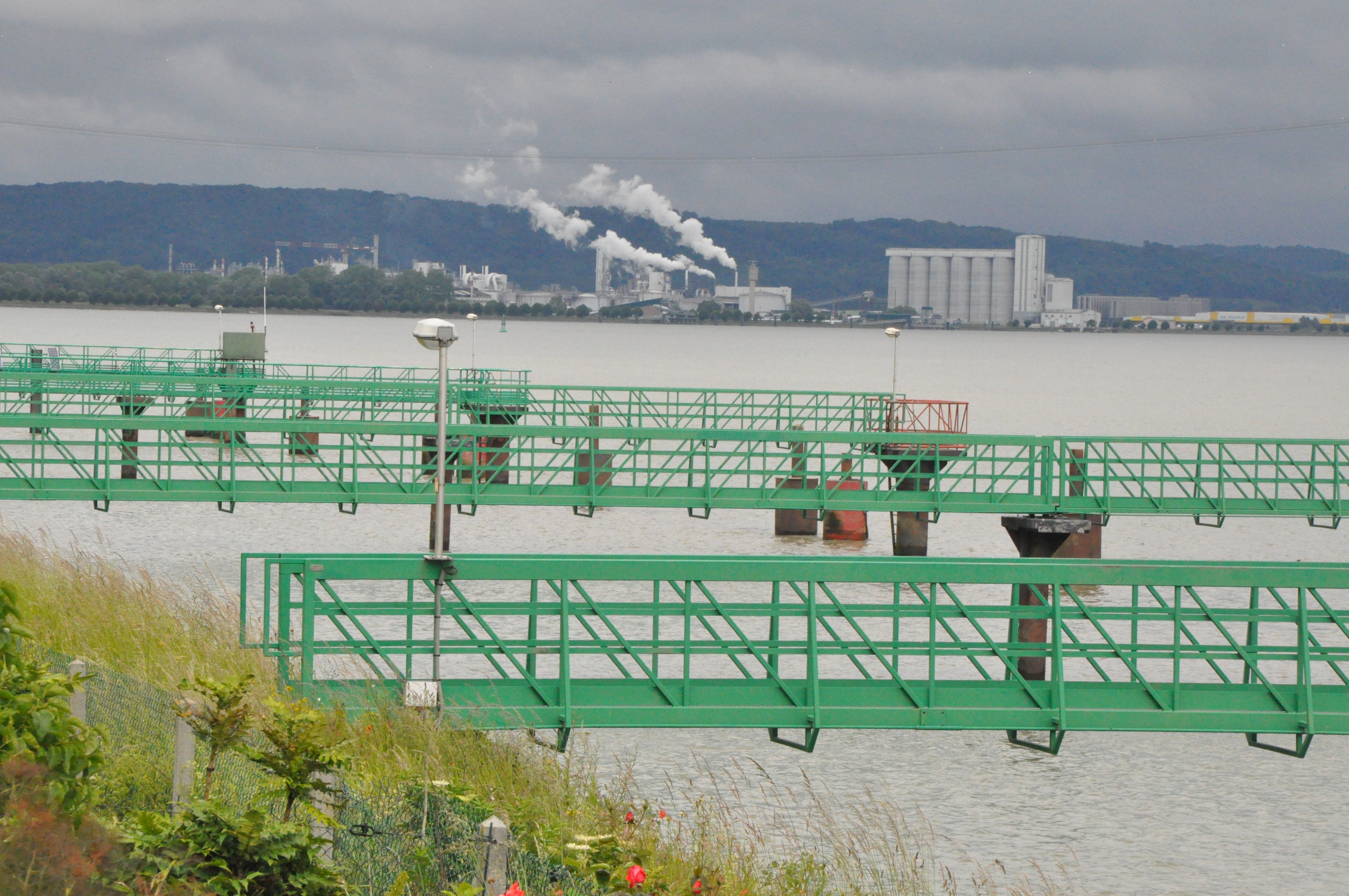 Industrial area of Notre-Dame de Gravenchon (France, Normandy)